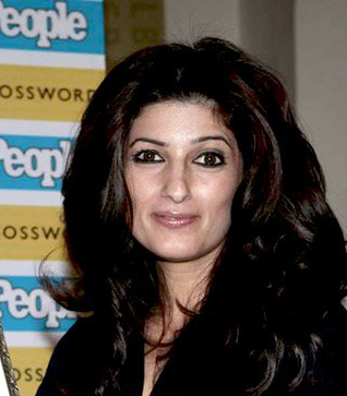 During the event of people magazine issue